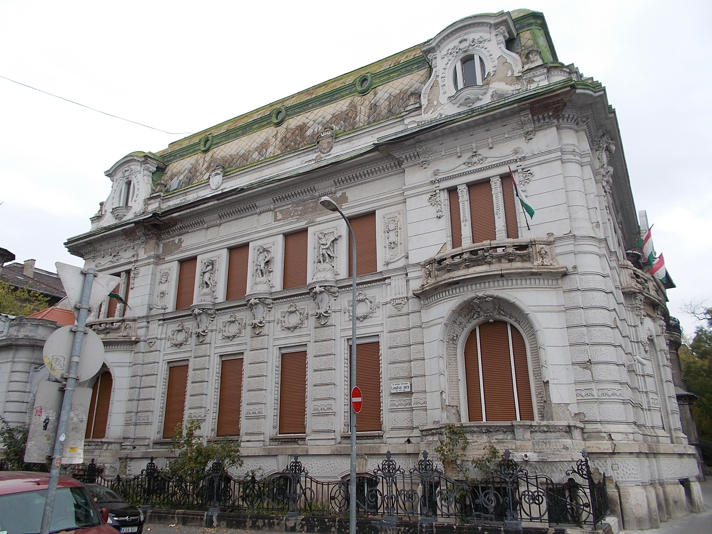 Fidesz – Hungarian Civic Alliance, former HQ. Located in a listed Villa named after Groedel. - Budapest District XIV